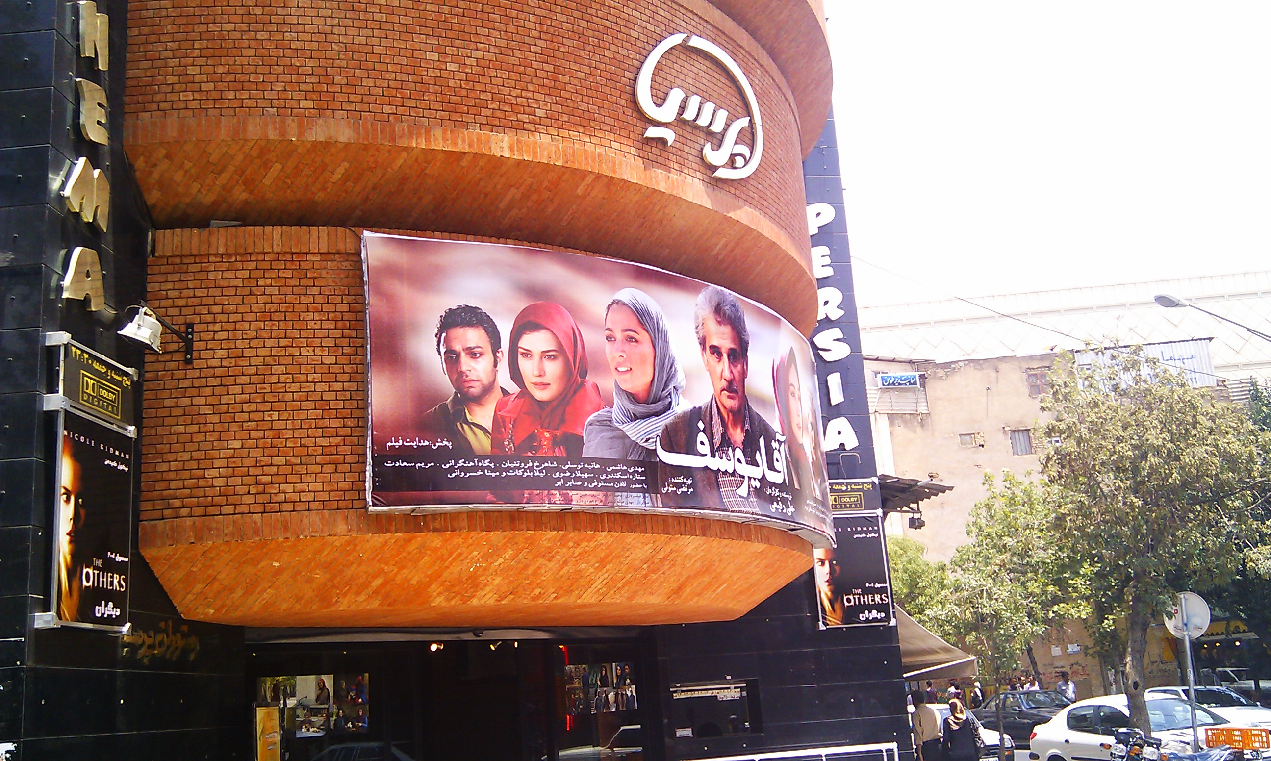 cinema in shiraz